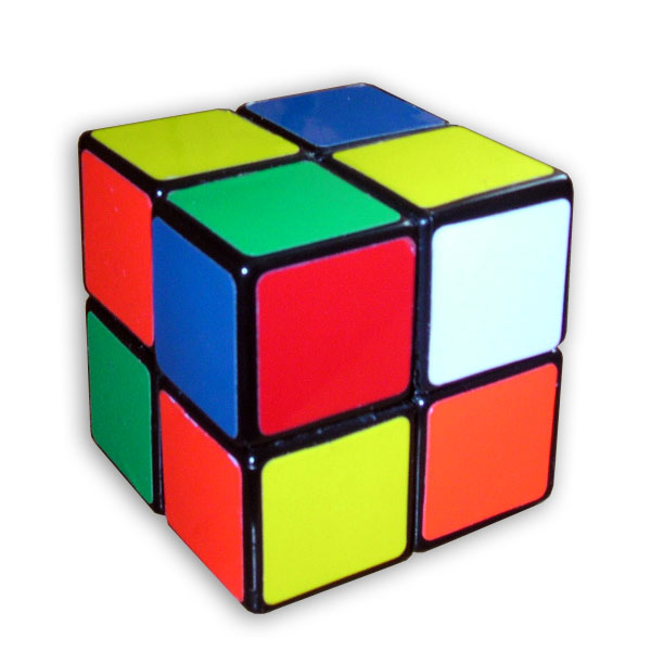 Pocket Cube in scrambled state